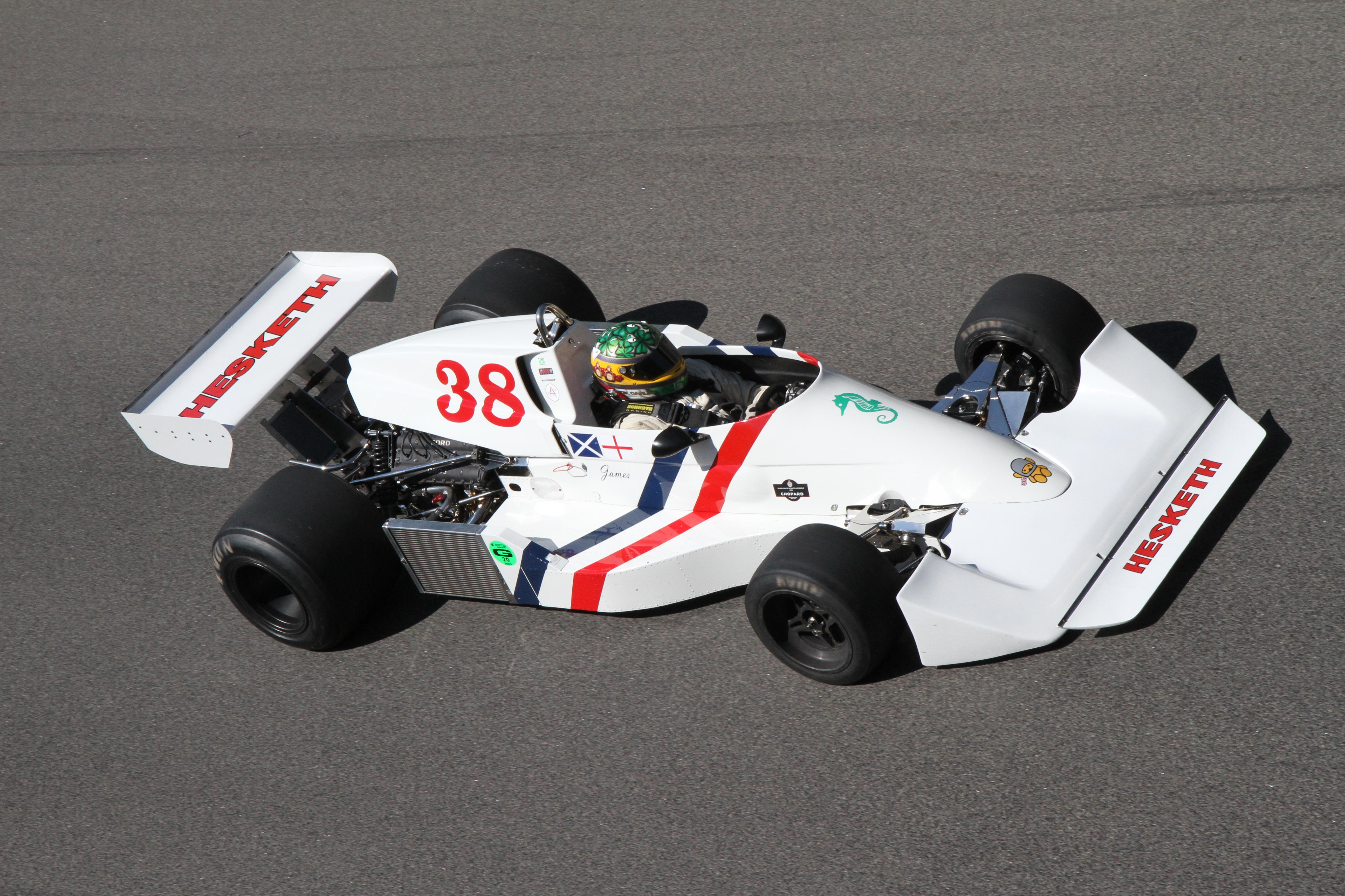 Ex-James Hunt Hesketh 308C Formula One racing car at Mont-Tremblant, during the 2010 Legends of Motorsport.